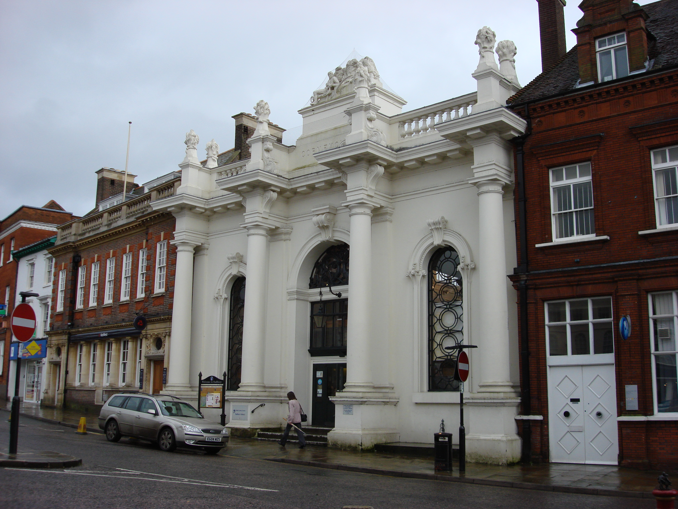 The Corn Exchange building at Sudbury Suffolk, now a Library